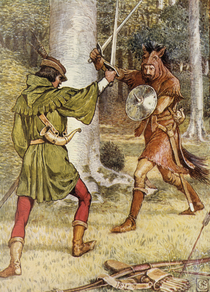 Robin Hood and Guy of Gisborne fighting. From Robin Hood and the Men of the Greenwood by Henry Gilbert.